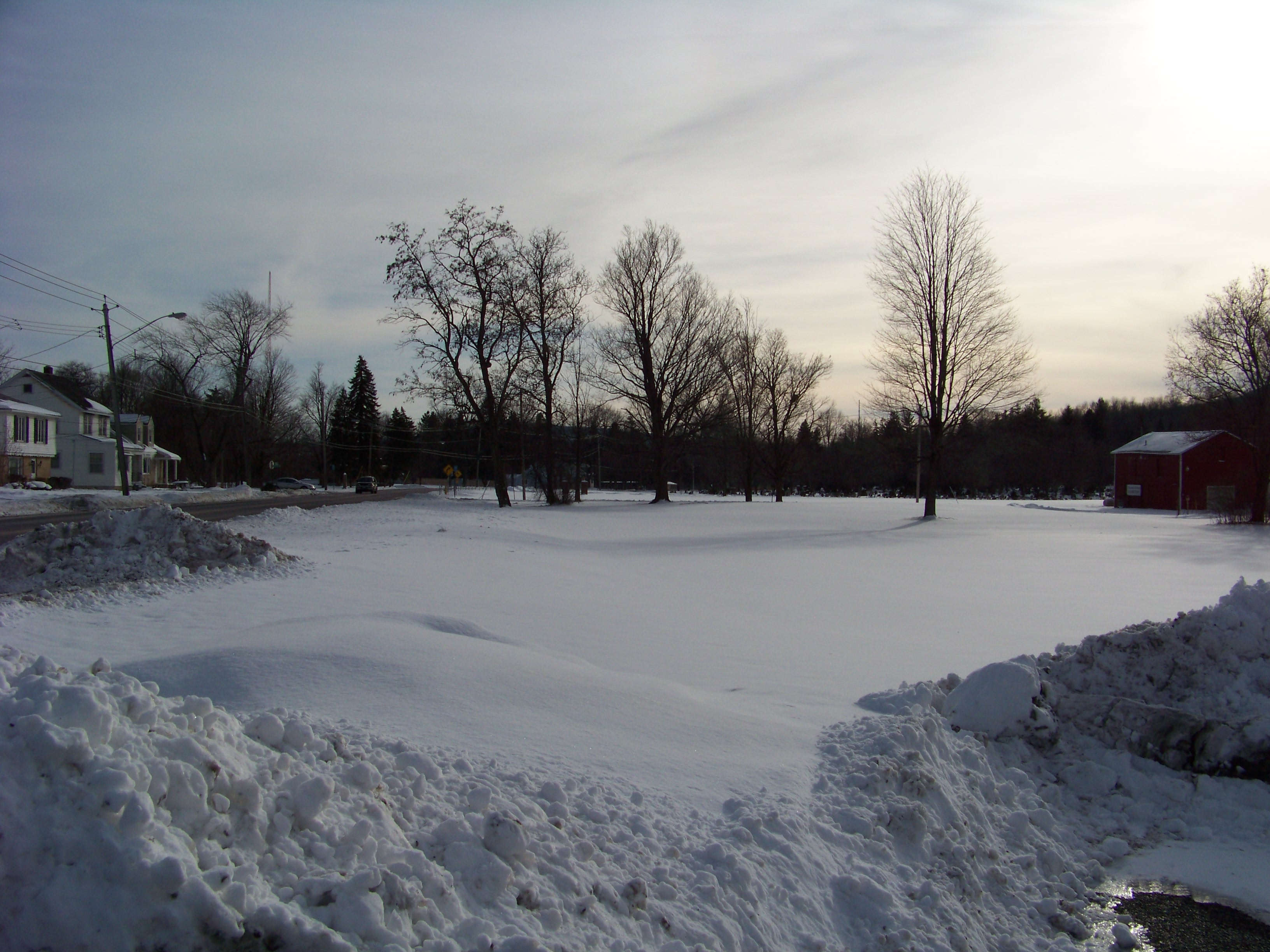 The site of the former Polaski King House at 2270 Valley Drive, Syracuse, NY.